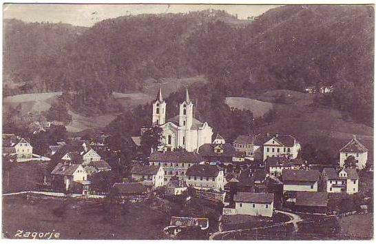 Postcard of Zagorje ob Savi